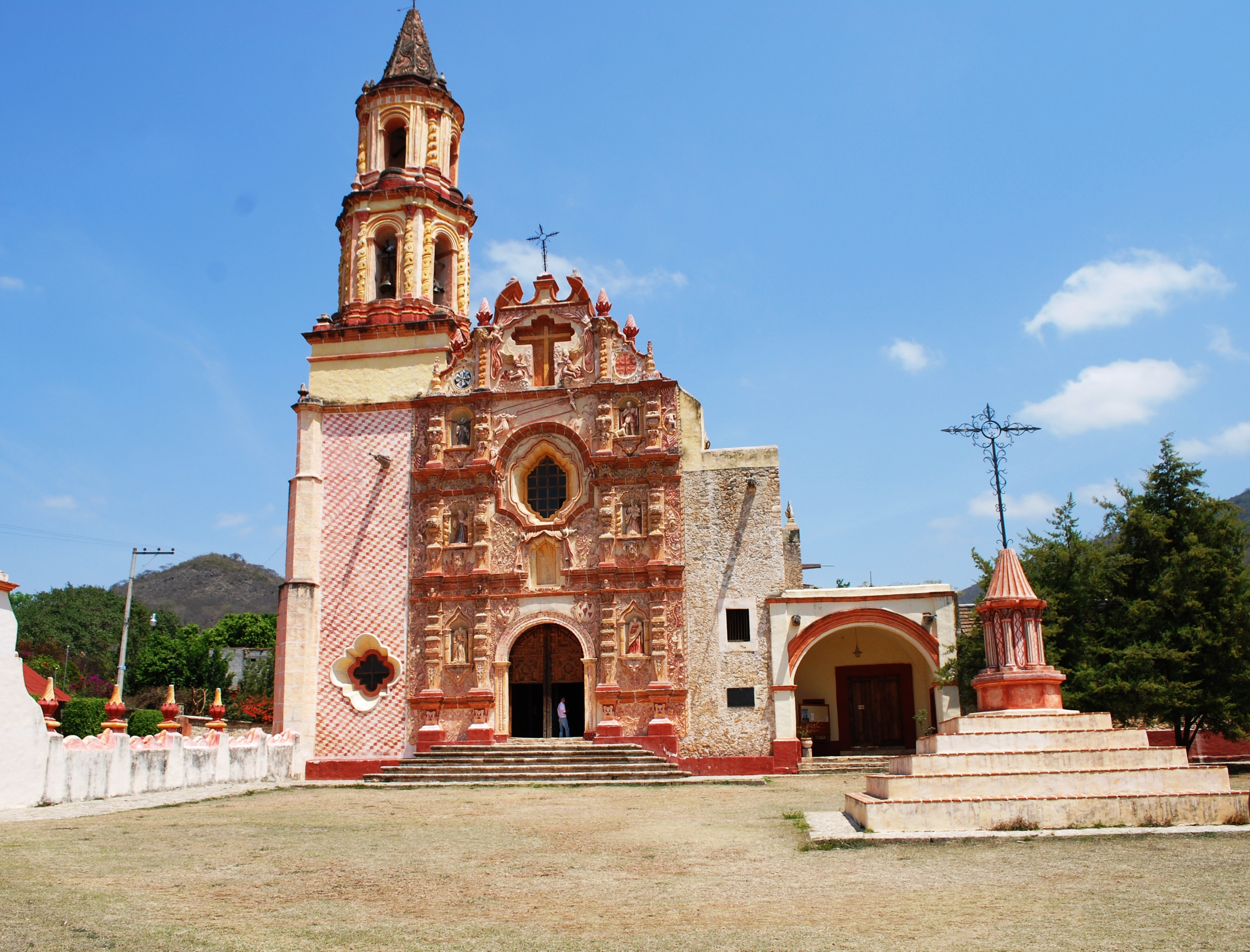 Facade of the mission at Tancoyol, Jalpan de Serra, Querétaro, Mexico